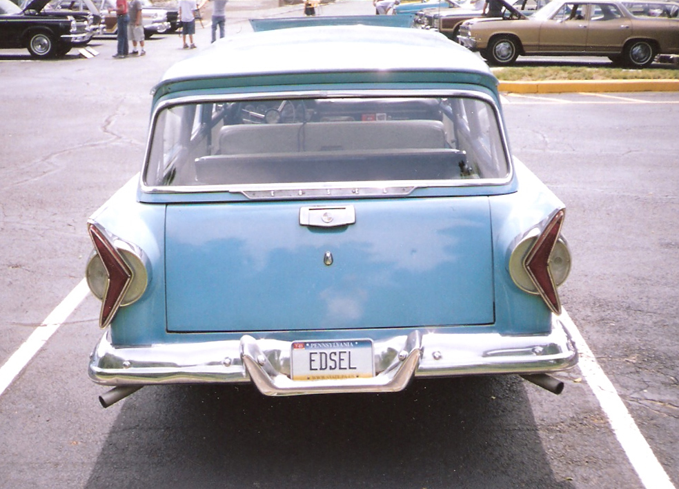 1958 Edsel Villager station wagon photographed in Princeton, New Jersey.